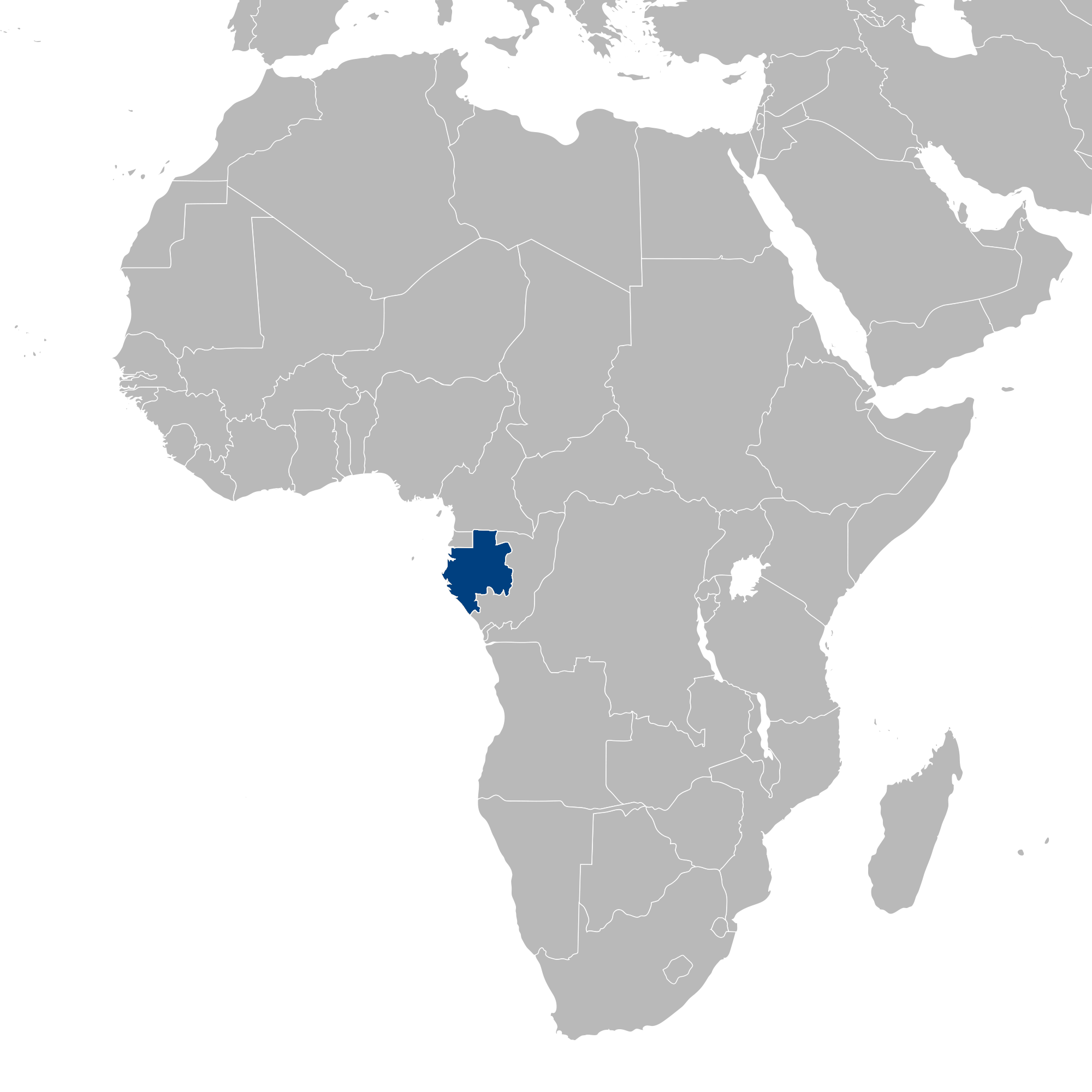 Location of Gabon in Africa.